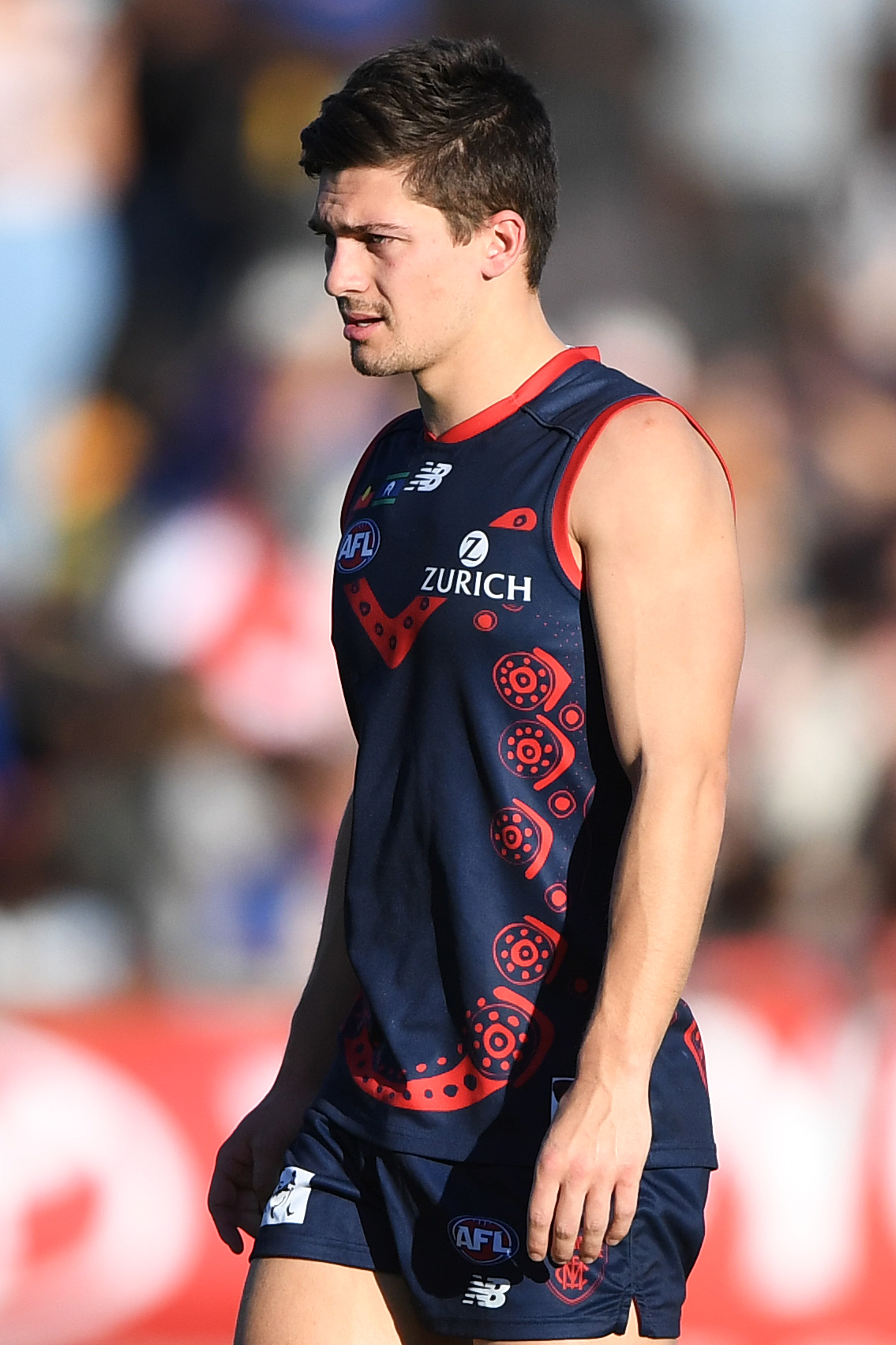 Jay Lockhart of Melbourne during the 2019 AFL round 18 match between Melbourne and West Coast at Traeger Park on Sunday, 21 July 2019 in Alice Springs, Northern Territory.